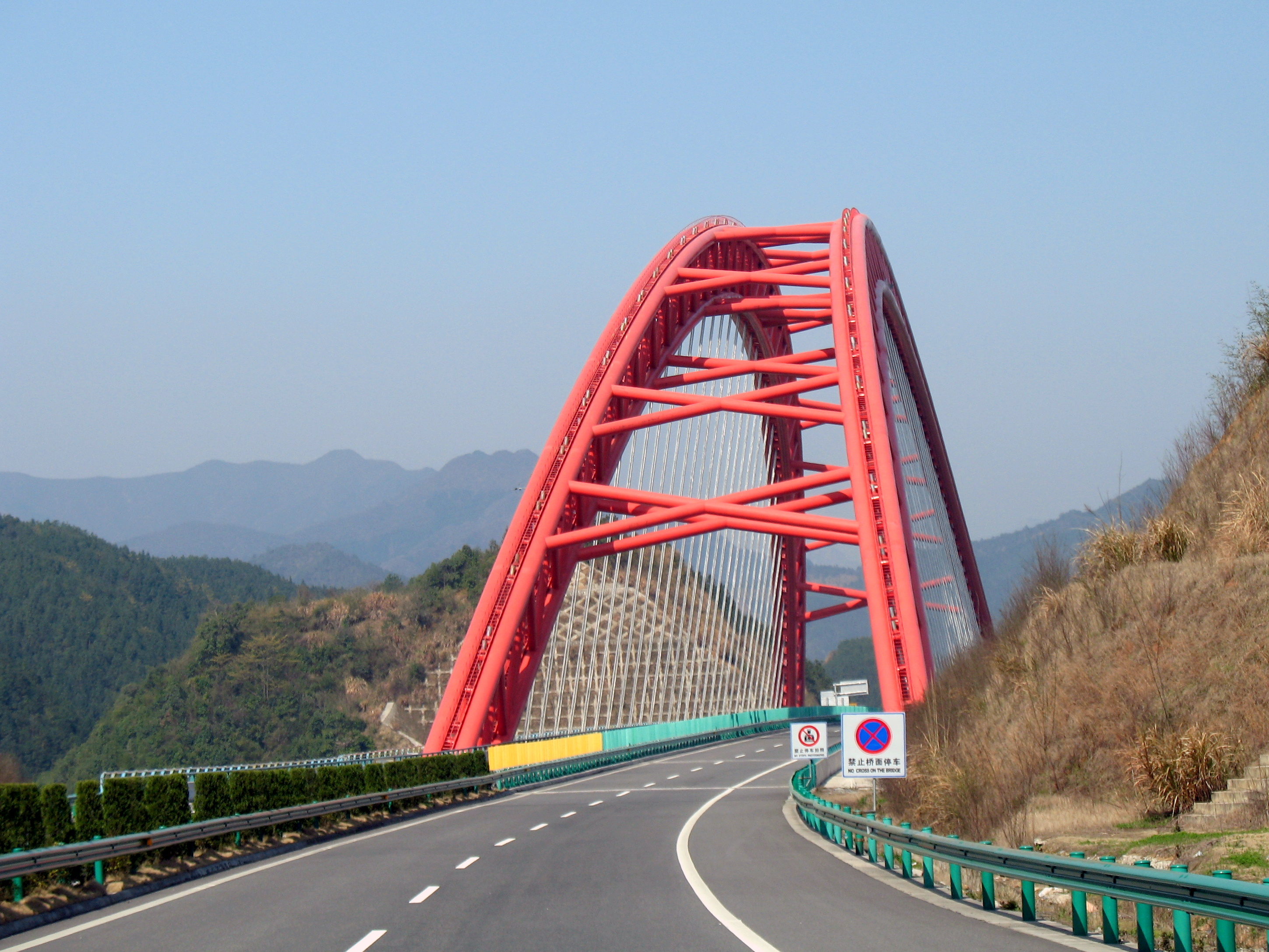 The Taipinghu Bridge in Anhui province, China